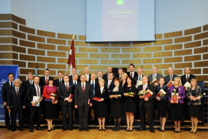 Satversmes komentāru atvēršanas svētki 2014.gadā